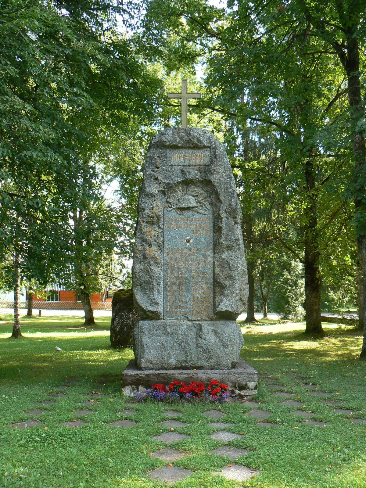 Monument to Estonian War of Independence in Kanepi, Estonia